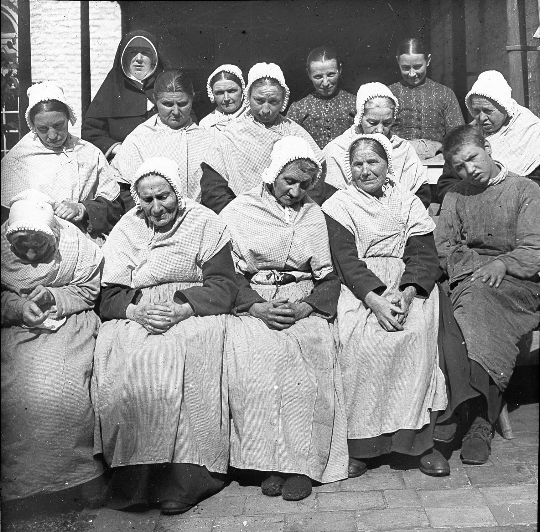 A group of poor women, some retarded, in Calvariënberg Hospital in Maastricht, Netherlands. The photograph was taken around 1895 or 1896 by Dr. Lambert Th. van Kleef, a famous surgeon in his time who was director of Calvariënberg from 1881 until 1904. He was also a dedicated photographer. Collection of RHCL, Maastricht, ref. nr. VKG 058.